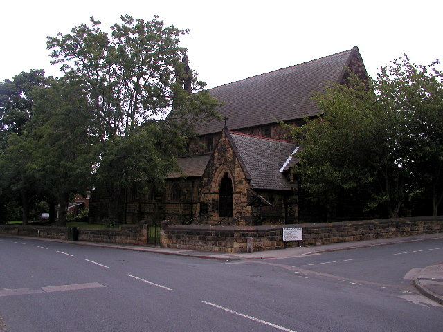 Altofts Church. The Church of St. Mary Magdalene. Altofts is a typical 'West Riding' village. Photo taken at MR: SE37742382.